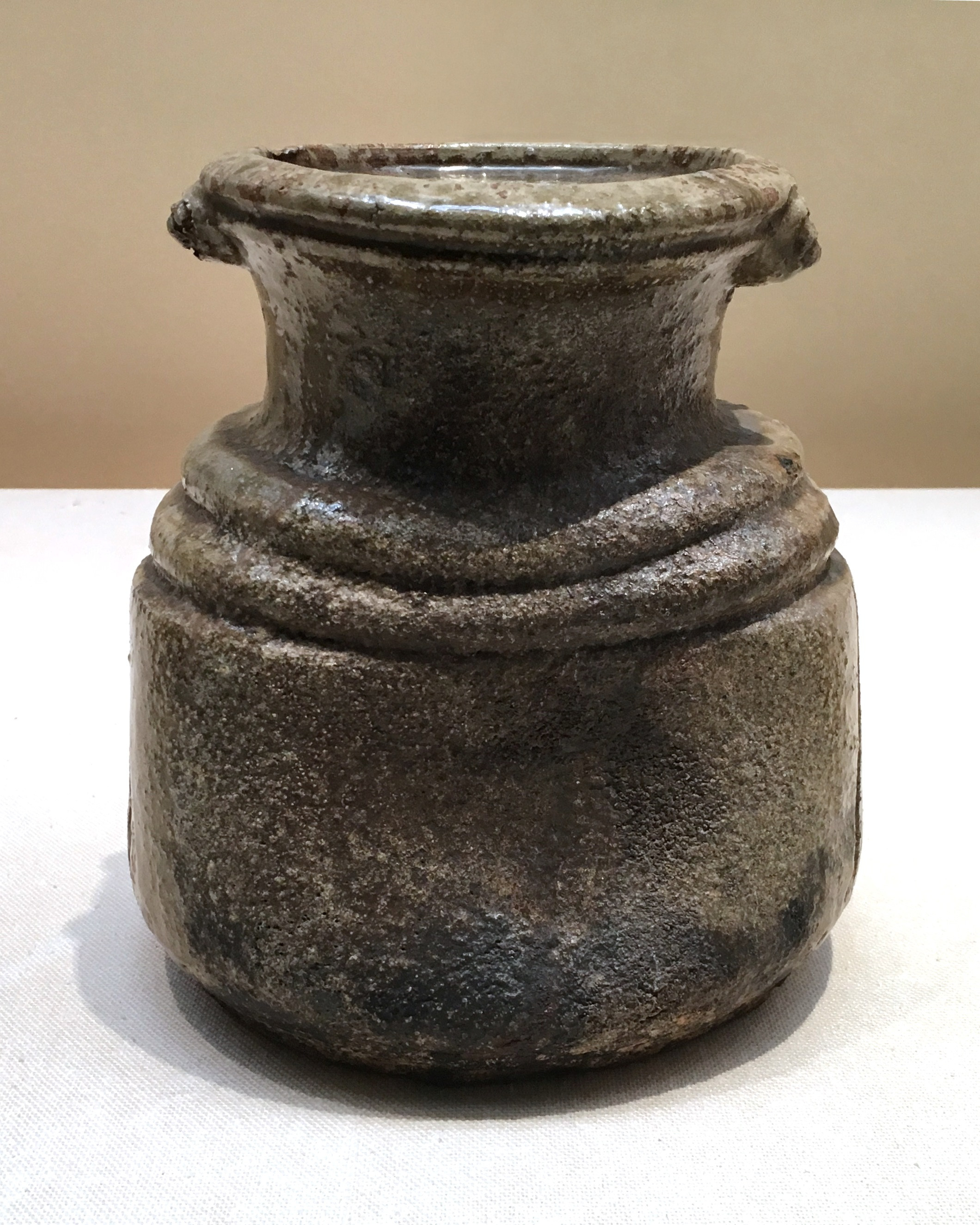 Fresh-water container, with two decorative grains. Iga ware Momoyama period, 17th century Aichi Prefectural Ceramic Museum